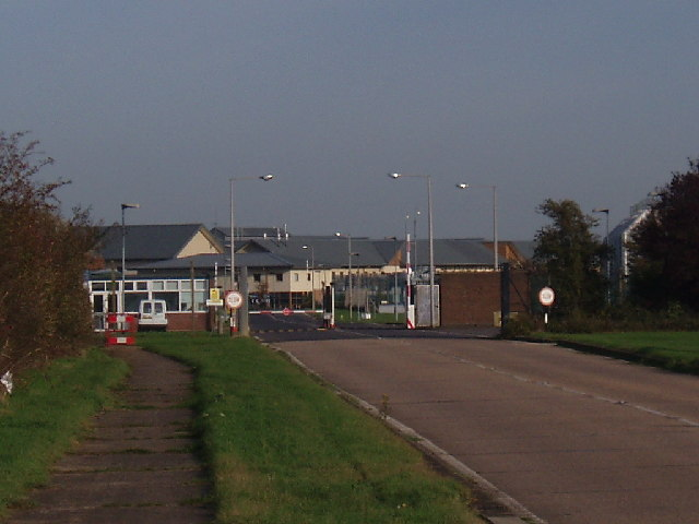 Yarlswood IDC. Entrance to the Yarls Wood Immigration and Detention centre, built on the old QinetiQ wind tunnel site, famously burnt down by its "guests" a few years ago.